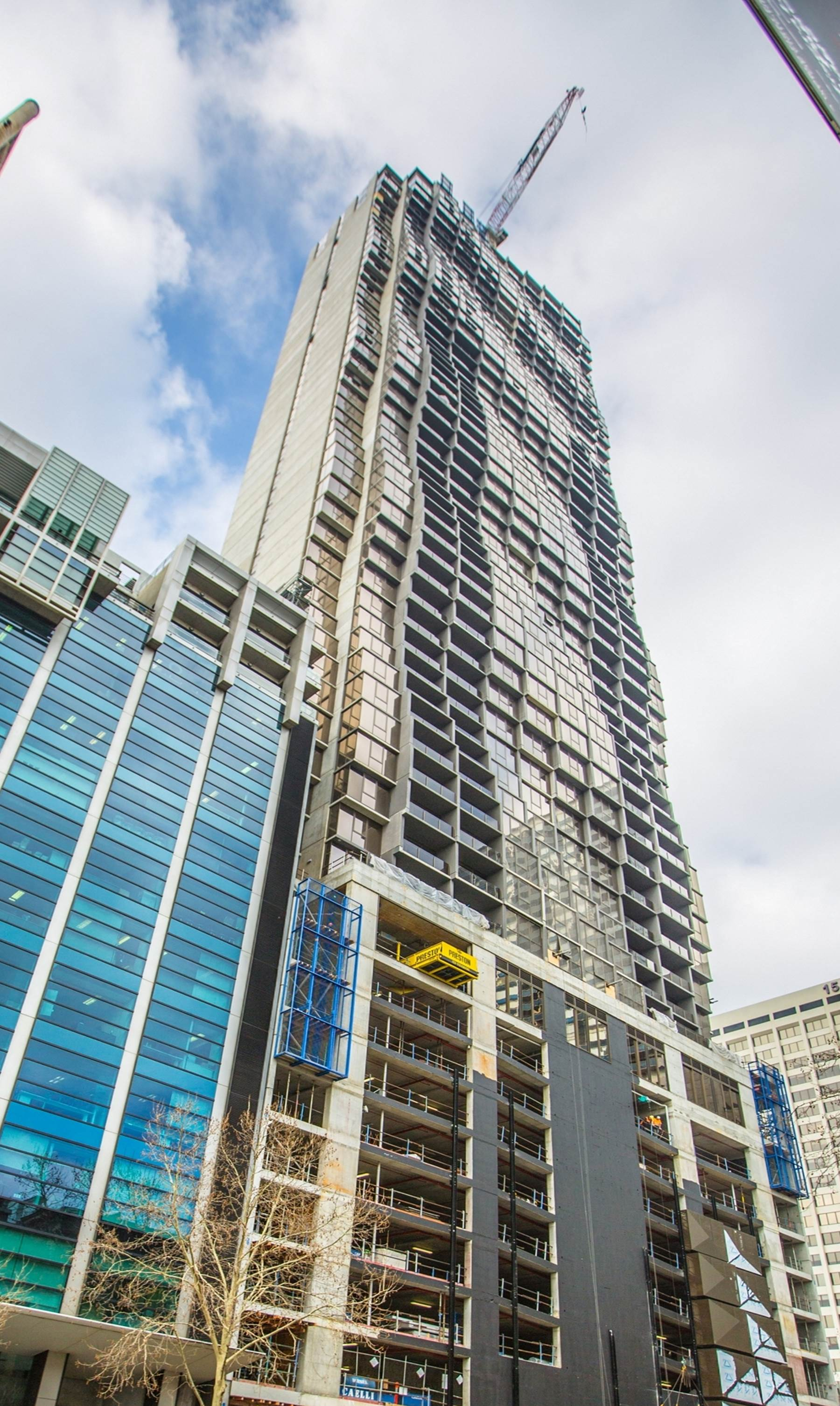 Abode318 building in August 2014. Image has been cropped.